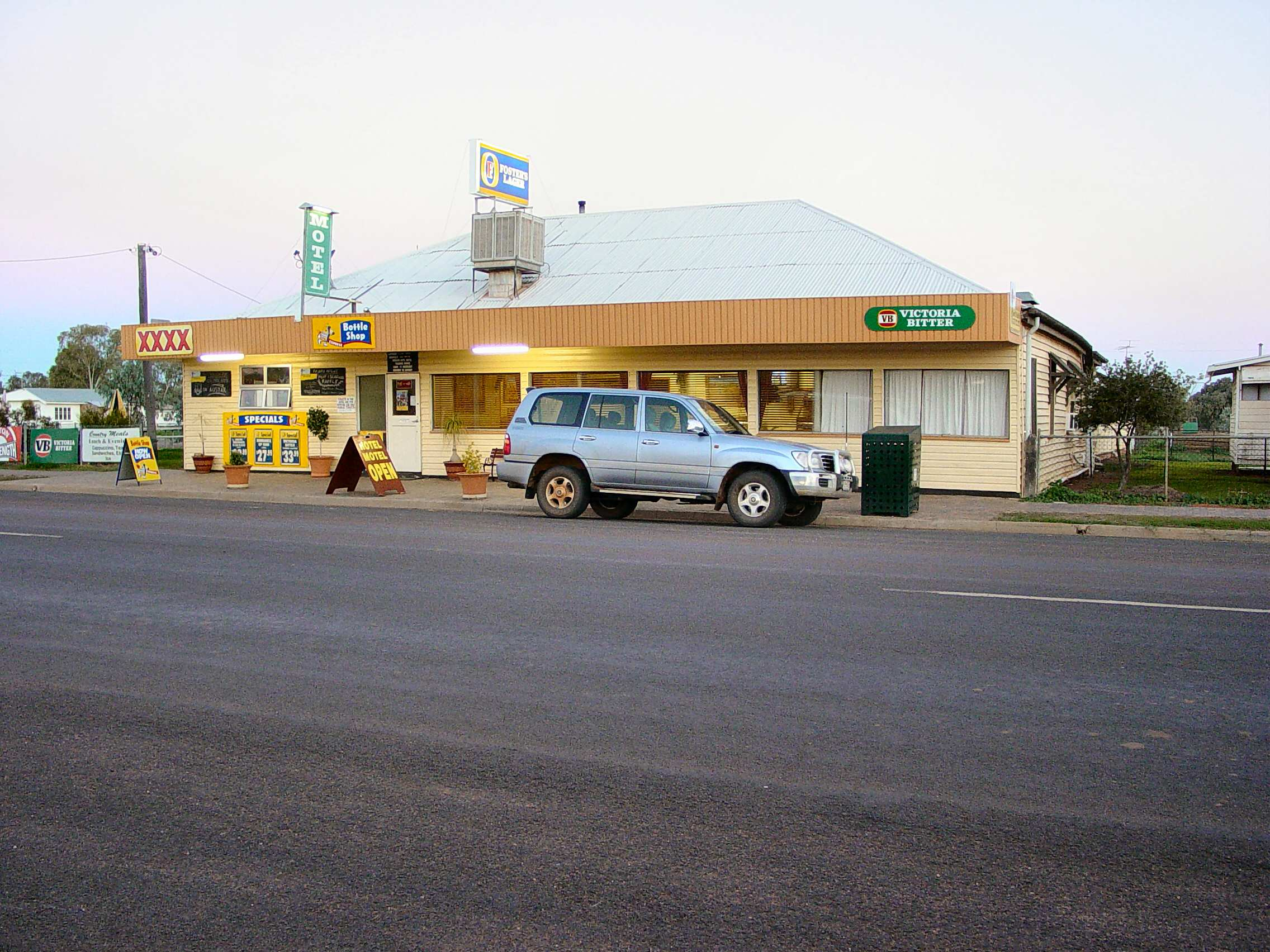 Photo taken and supplied by Brian Voon Yee Yap. The hotel in Morven.